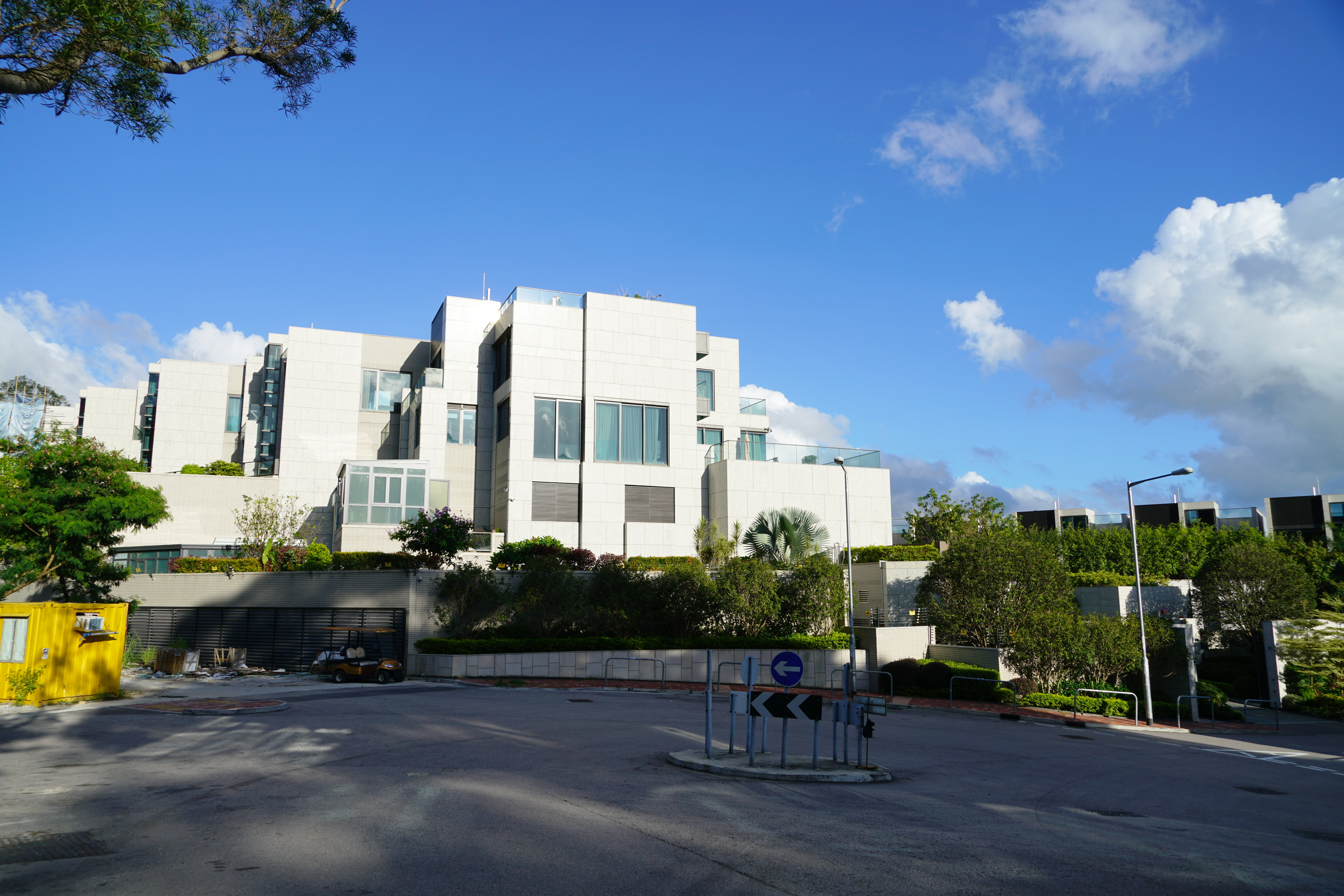 Peak Castle, Hong Kong.